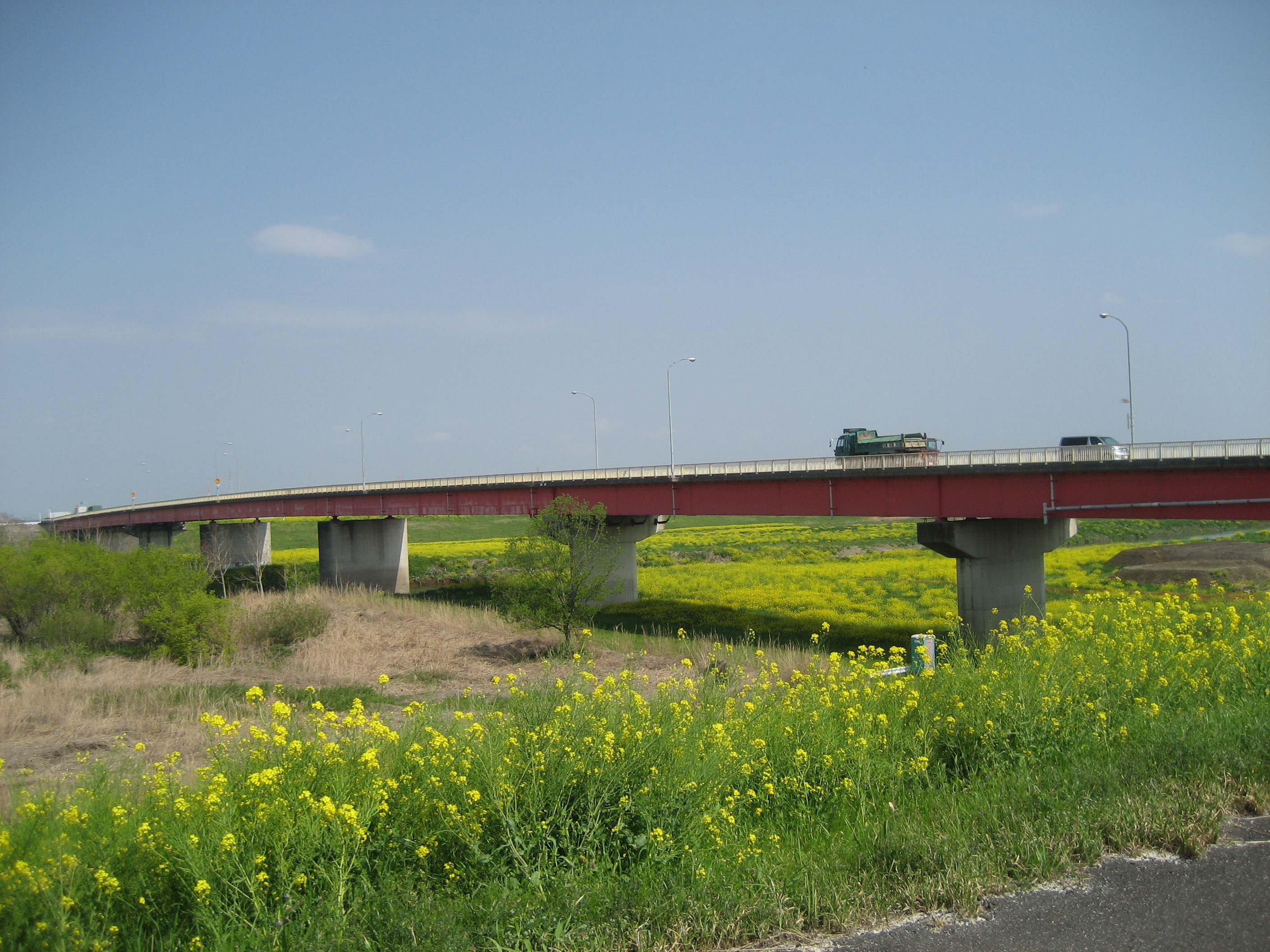 The Sekiyado Bridge over the Edo River on the Ibaraki Prefectural Road, Chiba Prefectural Road and Saitama Prefectural Road Route 26